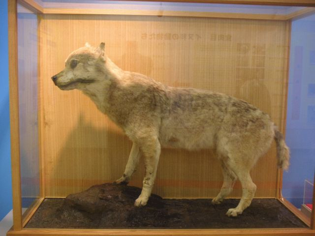 Honshū Wolf (Canis lupus hodophilax) in Ueno Zoo, Japan (Wakayama University possession?).